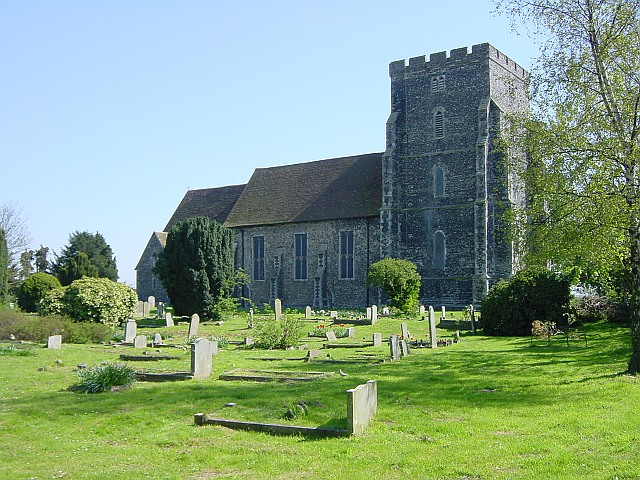 Holy Trinity Church, Milton Regis. C14. Restored by W L Grant in 1880.